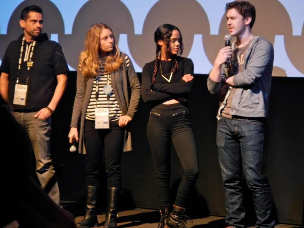 "Dear White People" at Sundance 2014